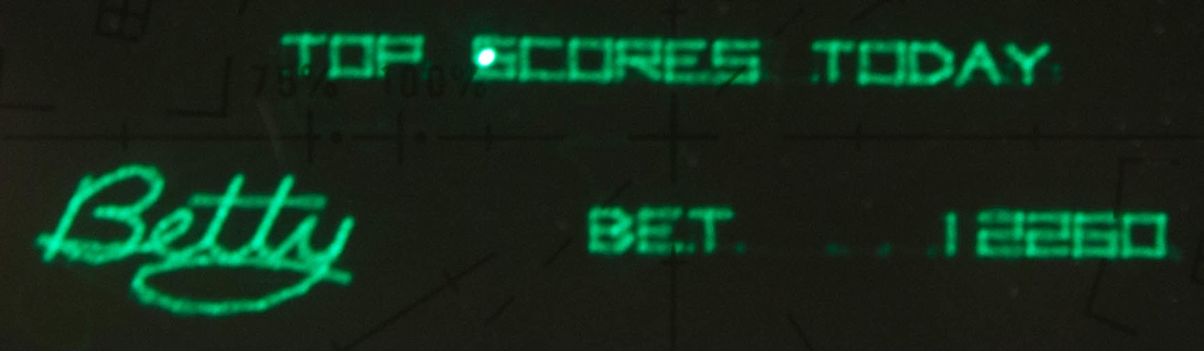 A high score signature in the Atari vector game, Quantum.